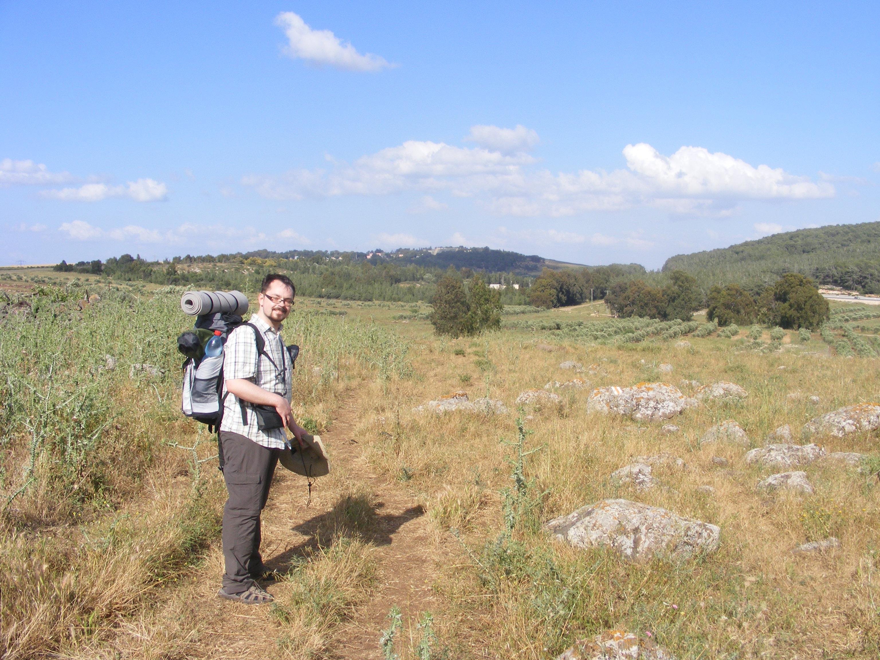 Walking on the Jesus Trail